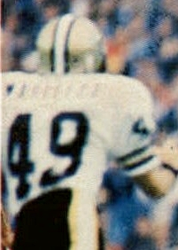 New Orleans Saints safety Frank Wattelet pictured in a defensive play during a October 7, 1984 game against the Chicago Bears at Soldier Field.